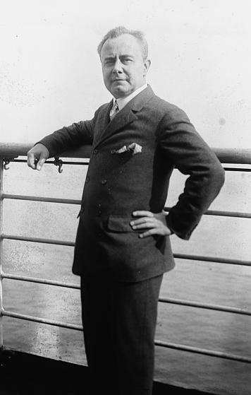 Józef Kazimierz Hofmann (1876 - 1957), Polish-American virtuoso pianist and composer